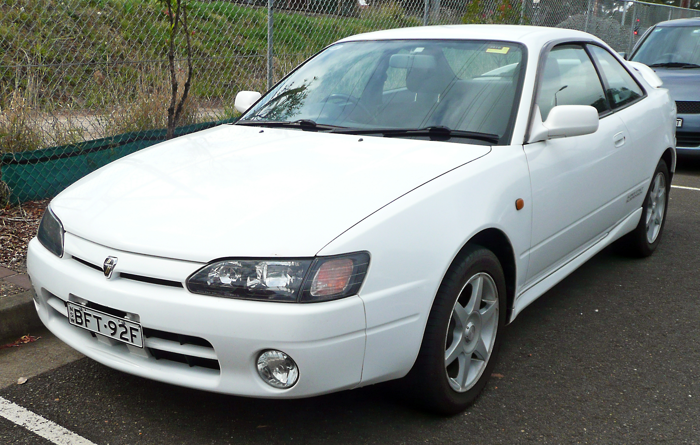 1998 Toyota Corolla Levin (AE111) BZ-R coupe (Japanese grey import). Photographed in Sutherland, New South Wales, Australia.